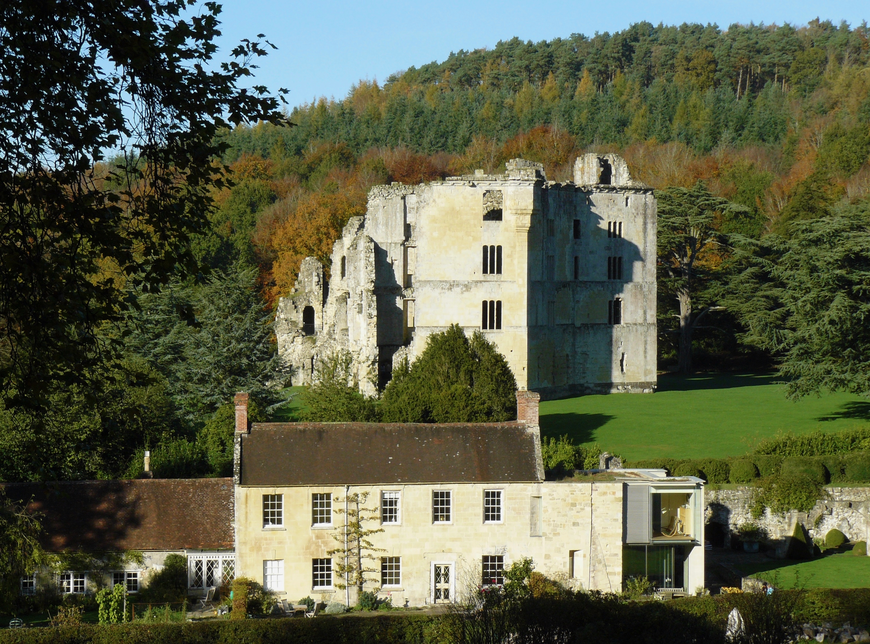 Old Wardour Castle